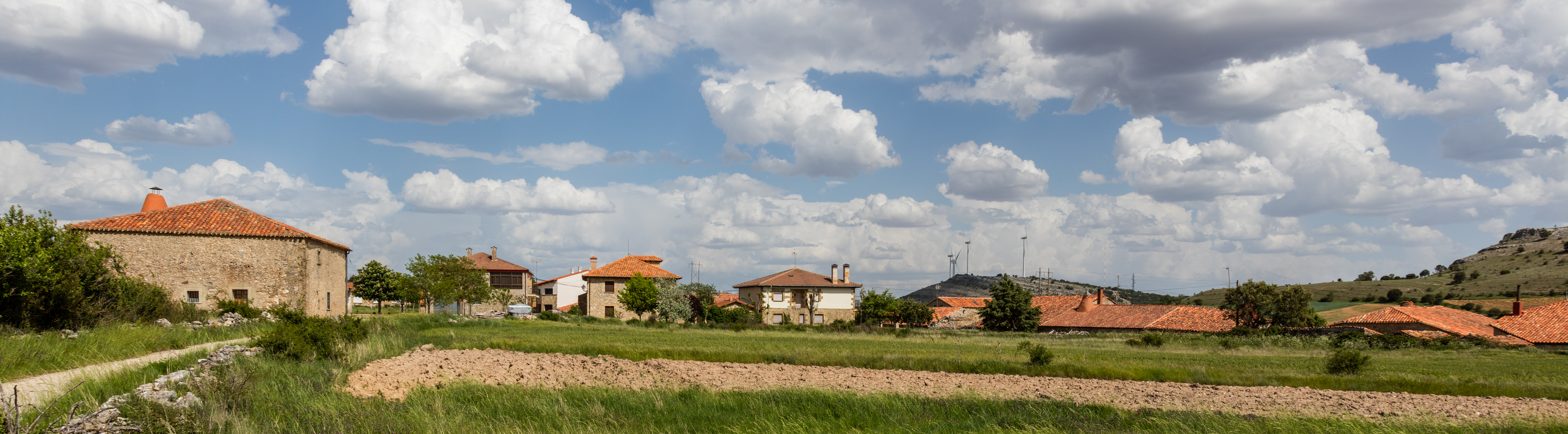 Villaciervitos, Soria, Spain